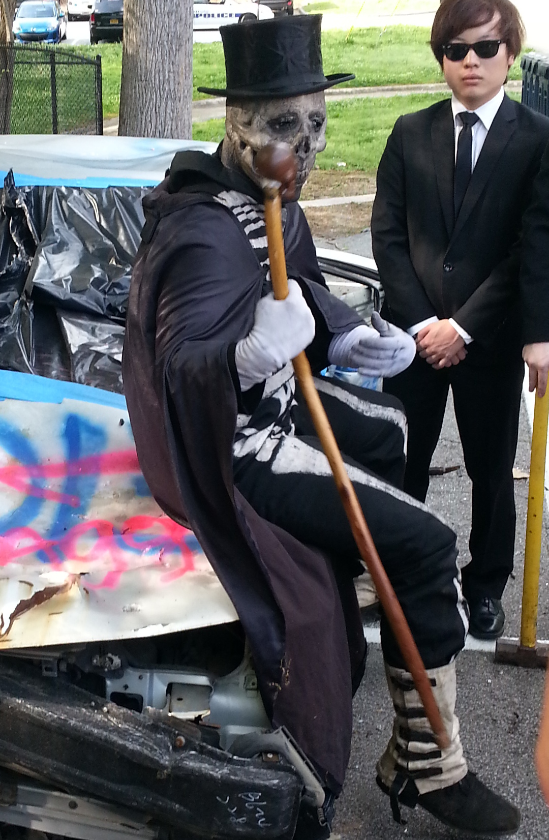 An image of Lord Dooley, the mascot of Oxford College of Emory University, sitting on bashed car during a student "car-bash" fundraiser. Note that the Oxford Dooley is markedly different than the Dooley at Emory's Atlanta campus.